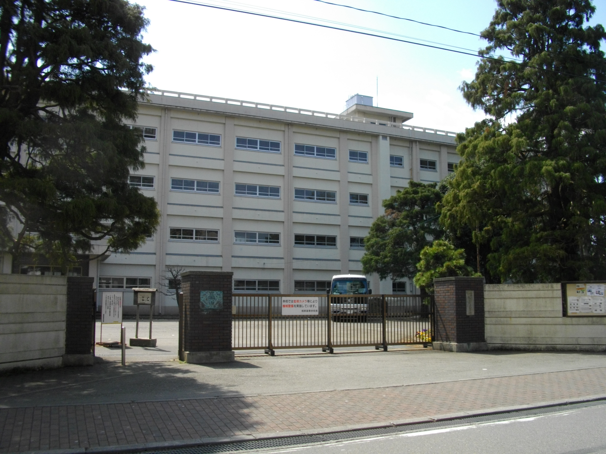 Aihara High School